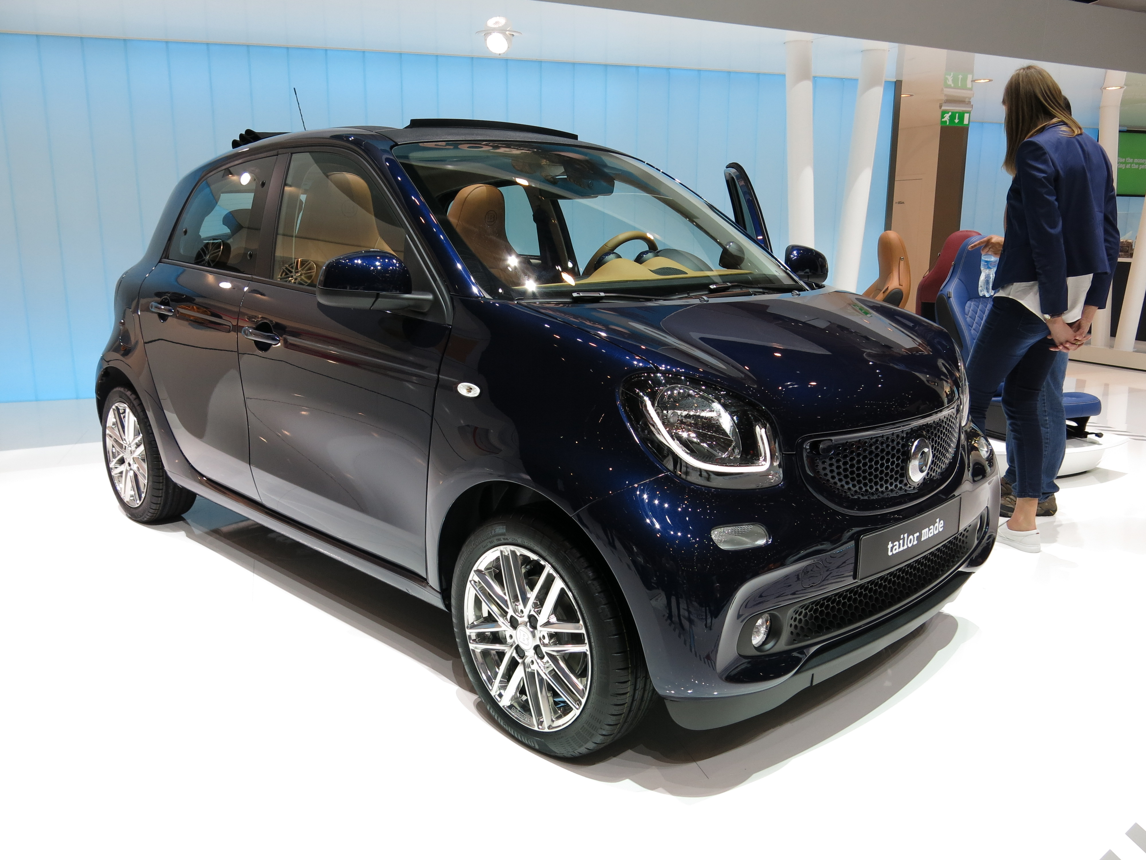 Geneva Motor Show 2015 (photo taken on the first press day)